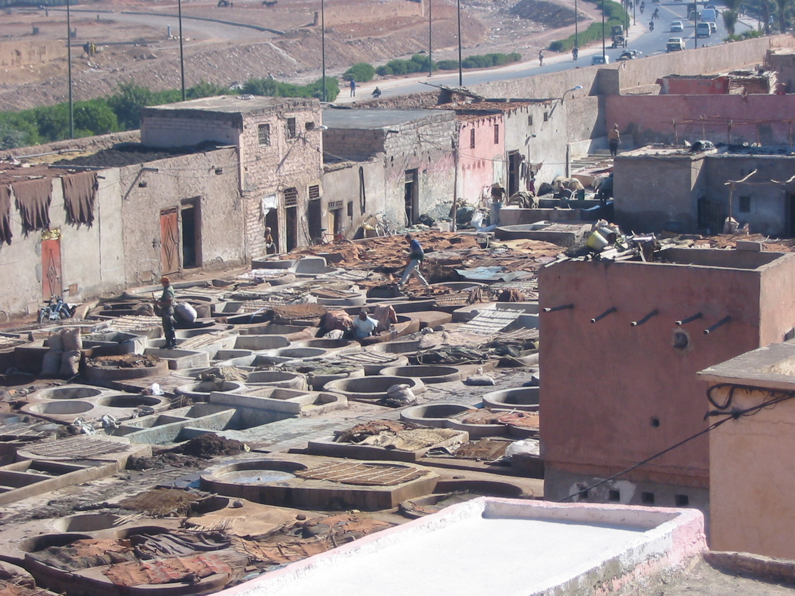 Tanneries of Marrakech